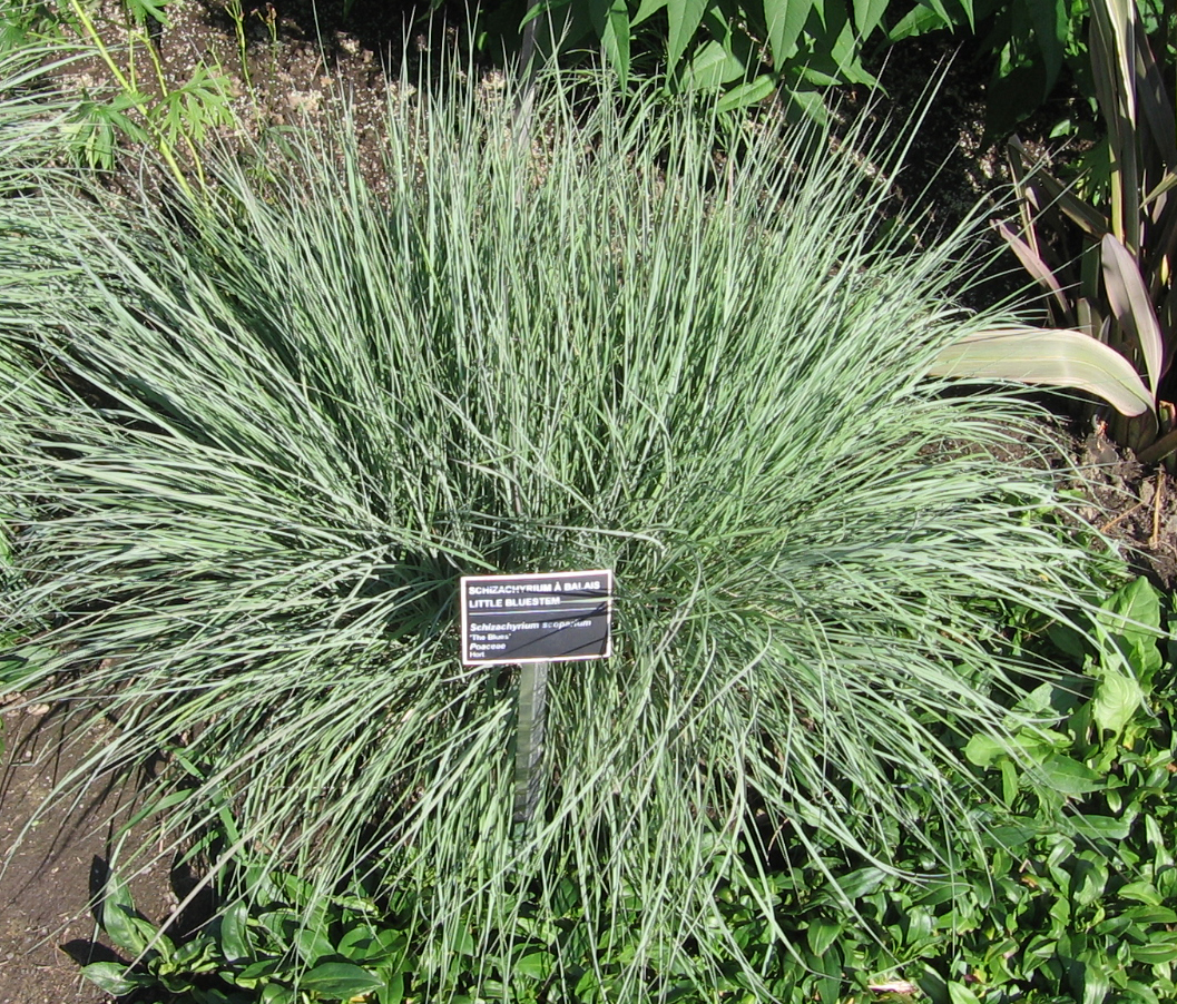 Schizachyrium scoparium, Jardin botanique de Montréal